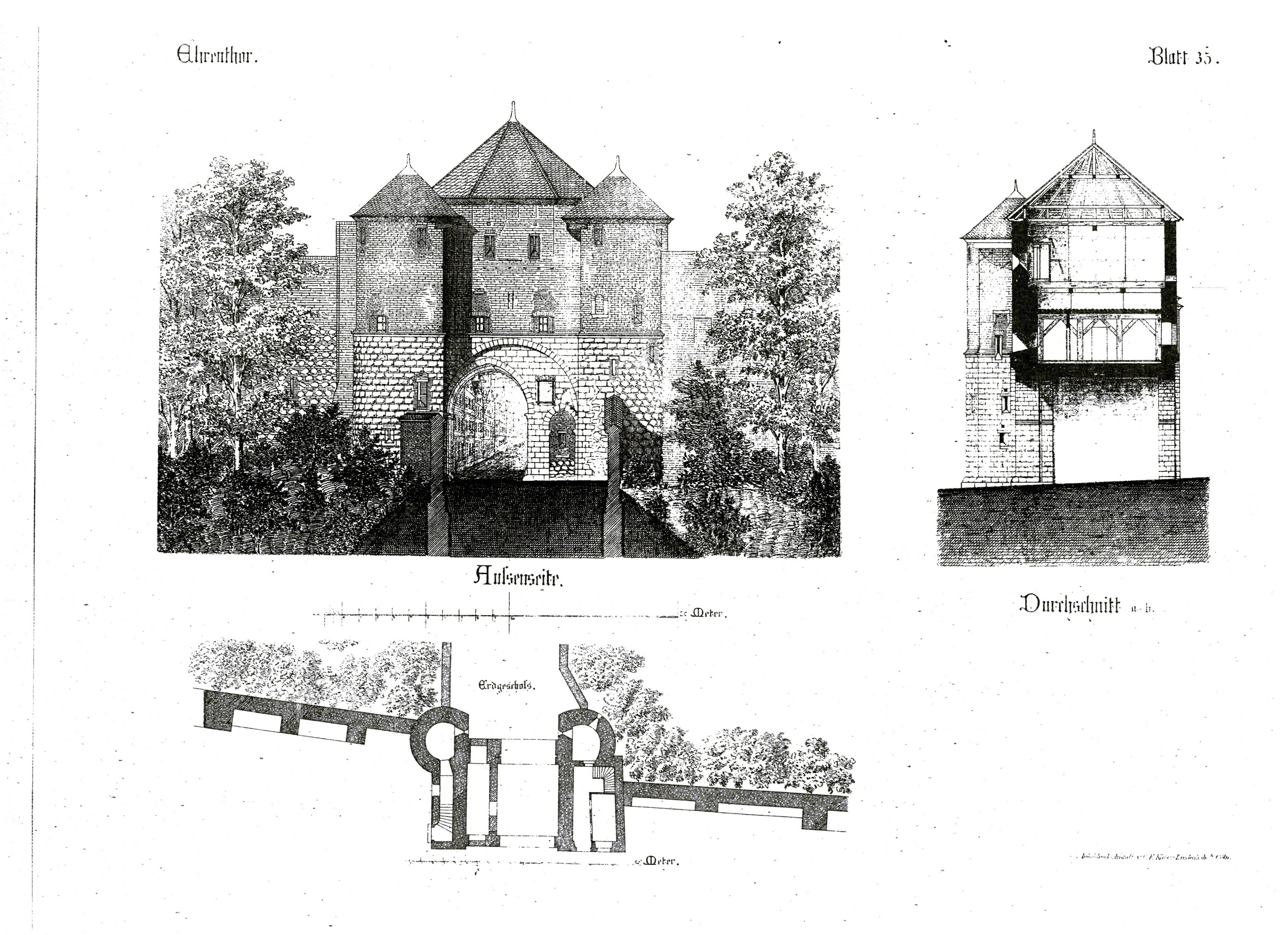 This is a scan of the historical document